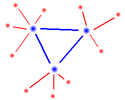 Diagram of a hierarchical communications network Original work of submitter